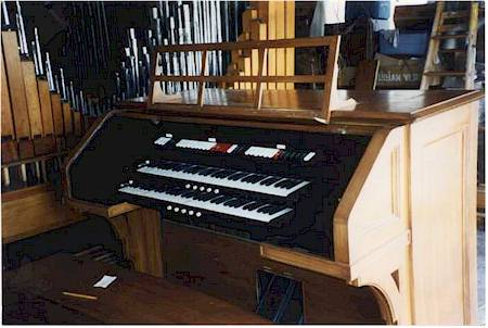 Welte-Mignon also built pipe organs. Pictured is opus 231. It had 9 ranks that include a Diapason, Tibia, Claribel, Violin, Muted Violin, Violin Celeste, Vox Humana, Trumpet, and Kinura on 73 note chests. Only the Claribel was duplexed to 2' as well as extended to the 16' pedal. It appears to have also had a xylophone. The stop list is as follows... The company: Welte-Mignon Stops: Great 8' Horn Dlapason 8' Claribel 8' Muted Violin 4' Orch. Flute 2' piccolo 8' Trumpet 16' Gr to Gr 4' Gr to Gr Unison off on key cheek 16' Sw to Gr 4' Sw to Gr Swell 16' Bourdon 8' Tibia 8' Claribel 8' Violin Cello (synth) 8' Violin 8' Viole Celeste 4' Orch. Flute 2 2/3 Nazard 2' Piccolo 8' Clarinet 8' Oboe (synth) 8' Vox Humana Vox Vibrato Tremulant 16' Sw to Sw 4' Sw to Sw Unison off on key cheek Pedal 16' Subass 8' Flute 5 1/3 Flute Sw to Pedal Gr to Pedal Swell and Cresc. Pedals